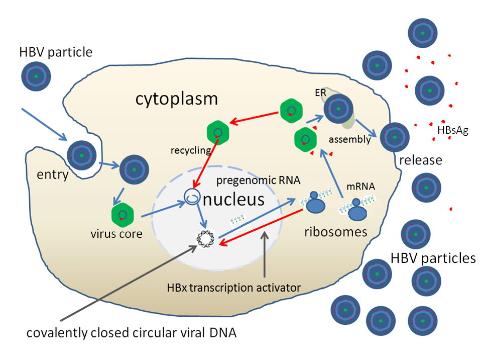 The replication cycle of Hepatitis B virus. Created by User:GrahamColm